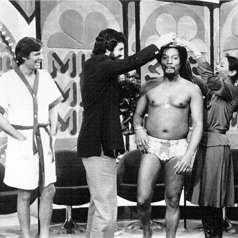 Dr. Warren Farrell conducting a "men's beauty contest" on the Mike Douglas Show, circa 1976. Left-to-right: Alan Alda, host, who lost in beauty contest; Dr. Warren Farrell, crowning Billy Davis, Jr., leader of The Fifth Dimension; and Marilyn McCoo, also crowning, who was a beauty contest judge.